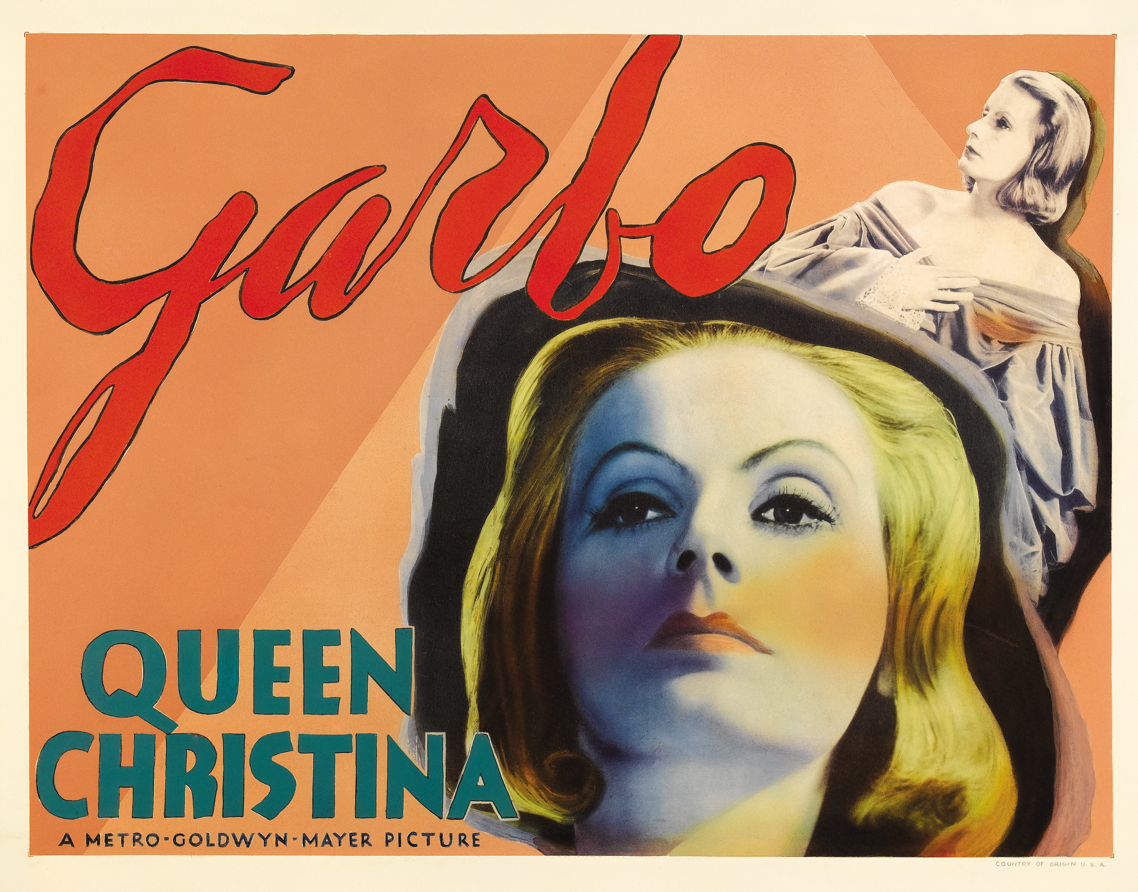 Film poster for Queen Christina